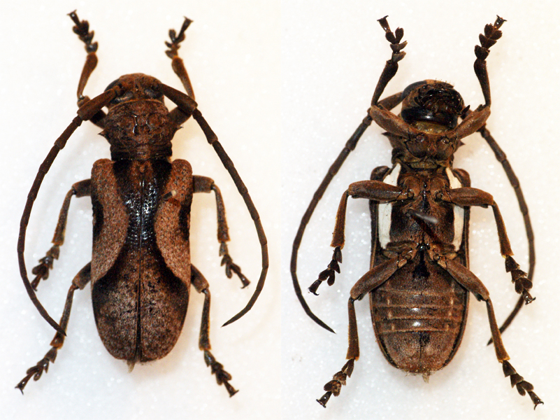 Chevrolat,1855 Sex: ? Data: 03-2013 - Mount Kloto - Togo Size: ?